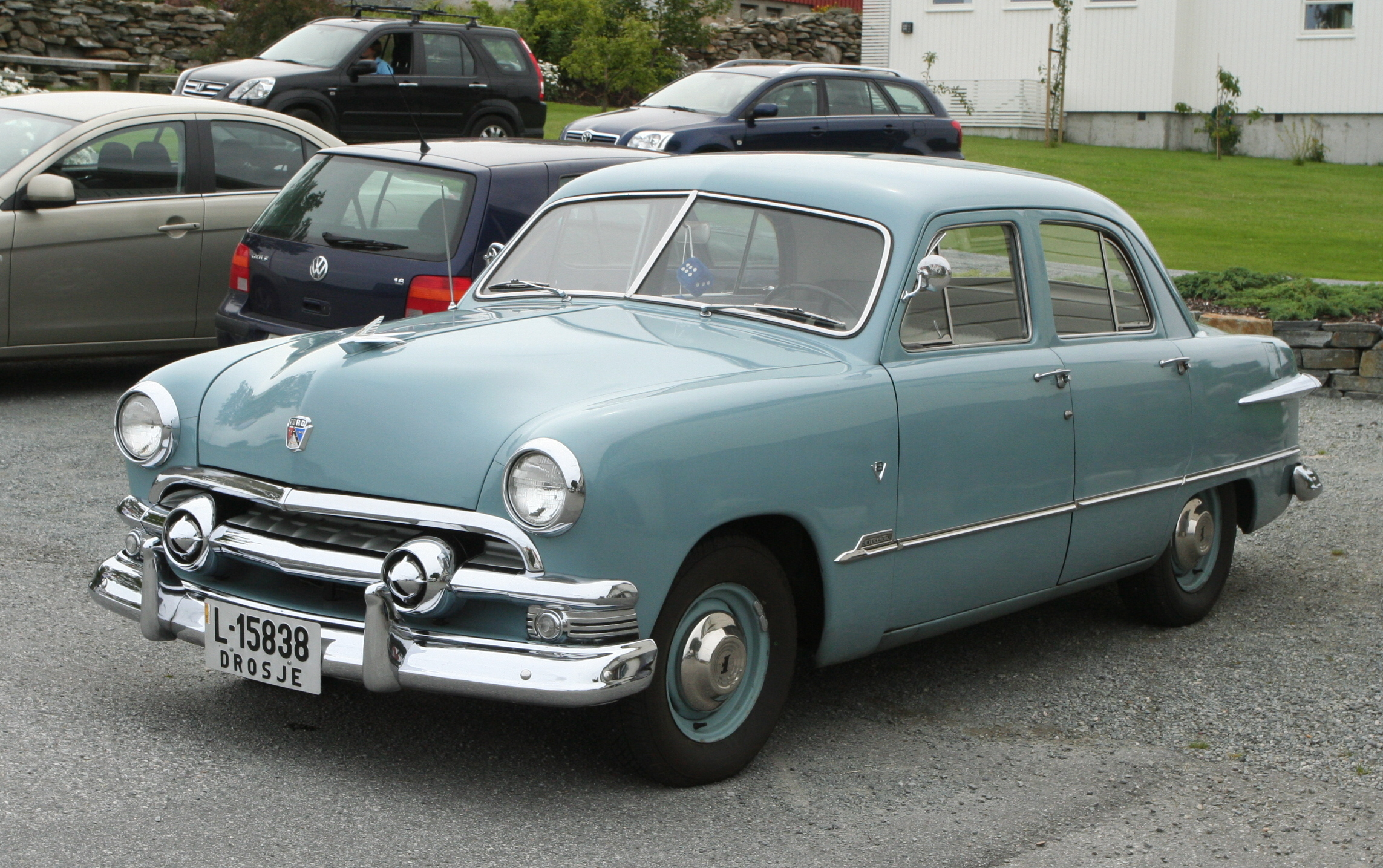 1951 Ford Custom DeLuxe 4-Door Sedan V8 (for taxicab use) Owner unknown. The car did not participate in the show, it was just parked near by. Captured at Utstein, Norway